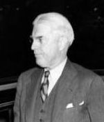 This image of U.S. State Department official William L. Clayton was cropped from the larger image from the Truman Library which is also available on Wikimedia Commons.